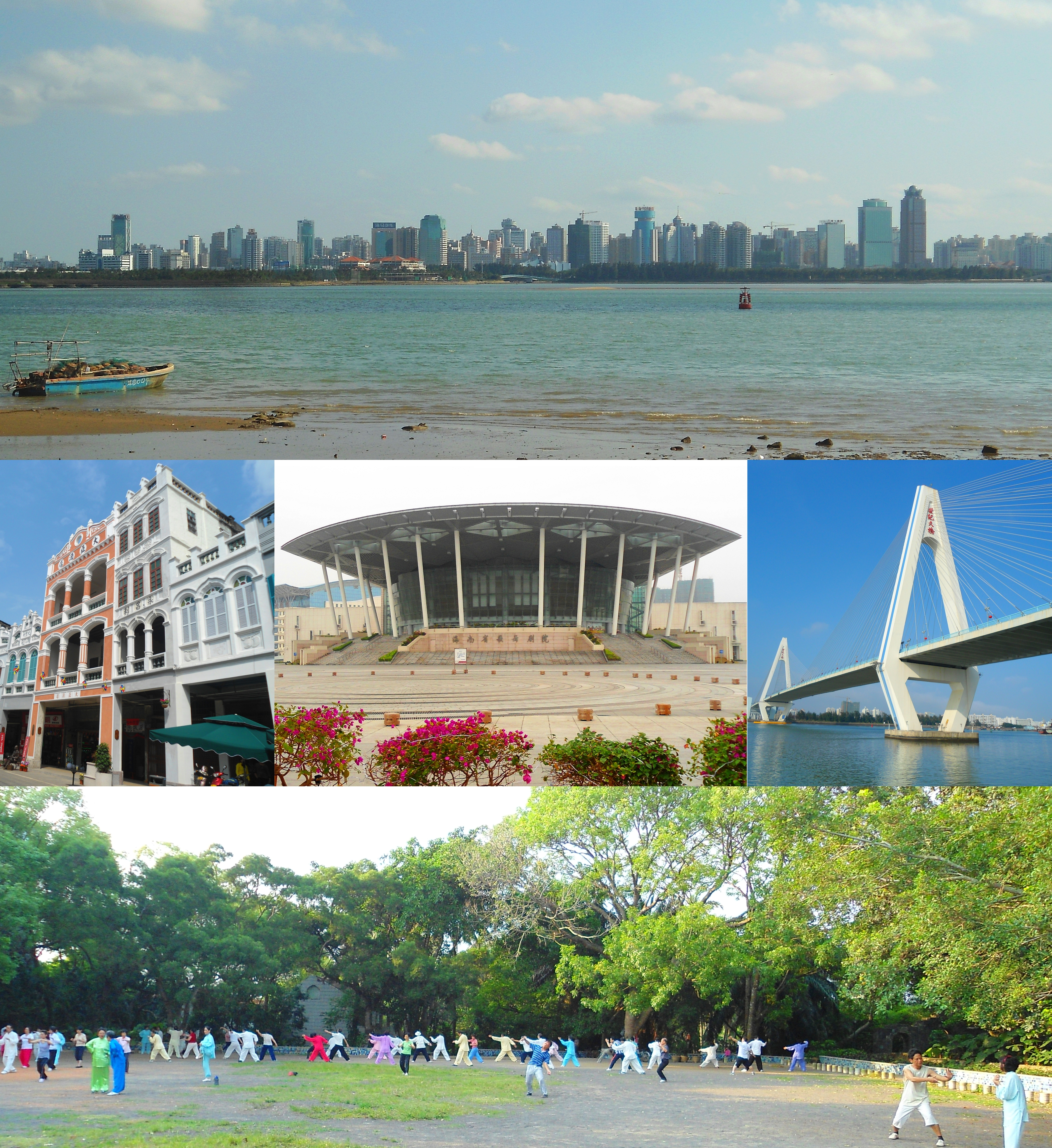 Haikou montage